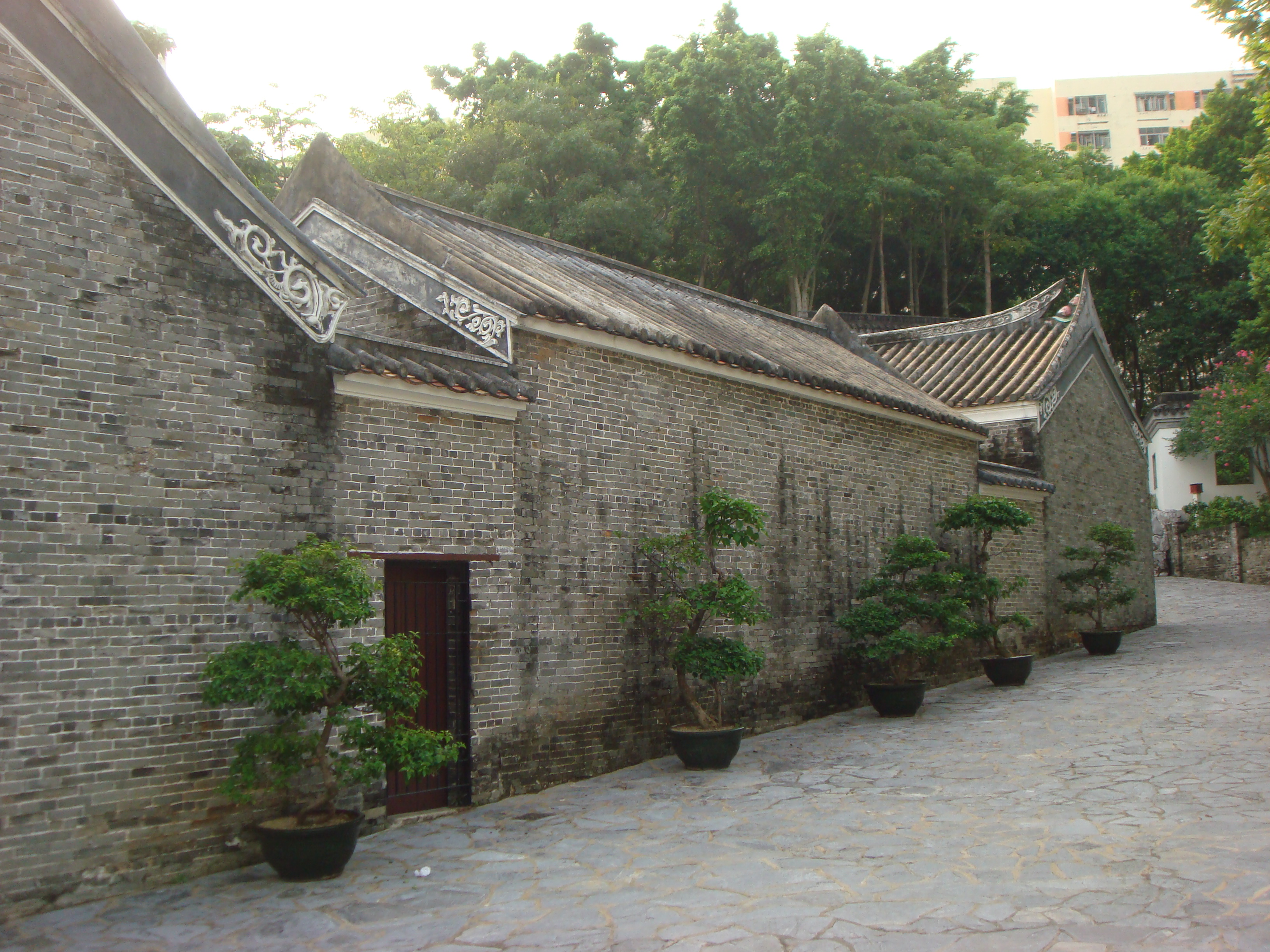 Former Yamen Building of Kowloon Walled City, Kowloon Walled City Park, Hong Kong